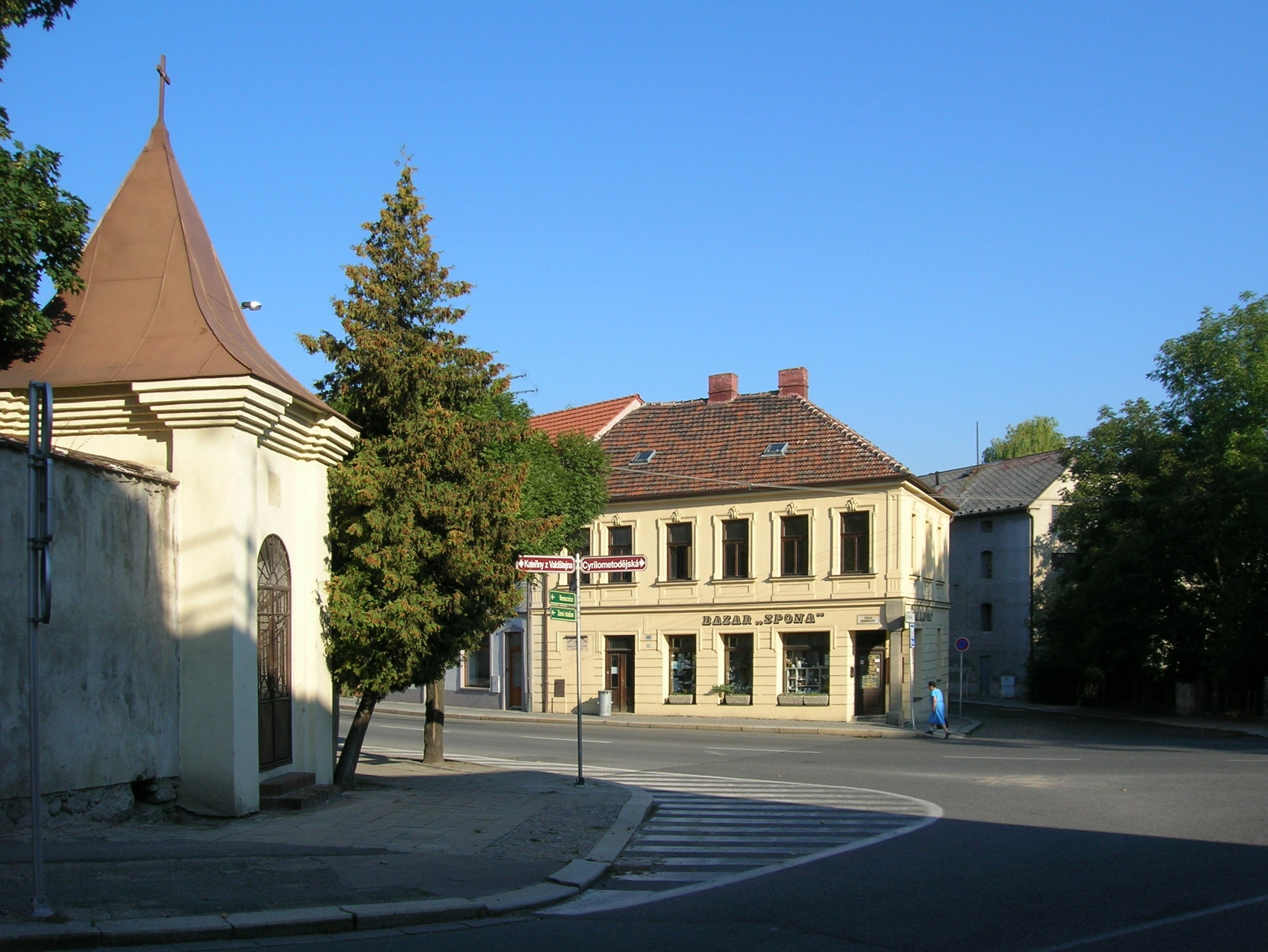 Třebíč-Jejkov. Street crossing near Smetana's bridge